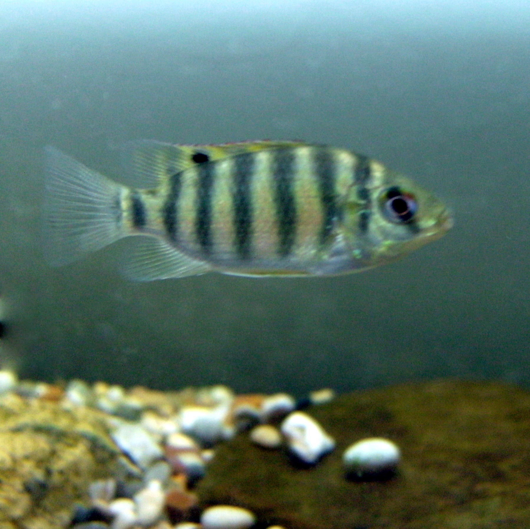 a young tilapia mariae